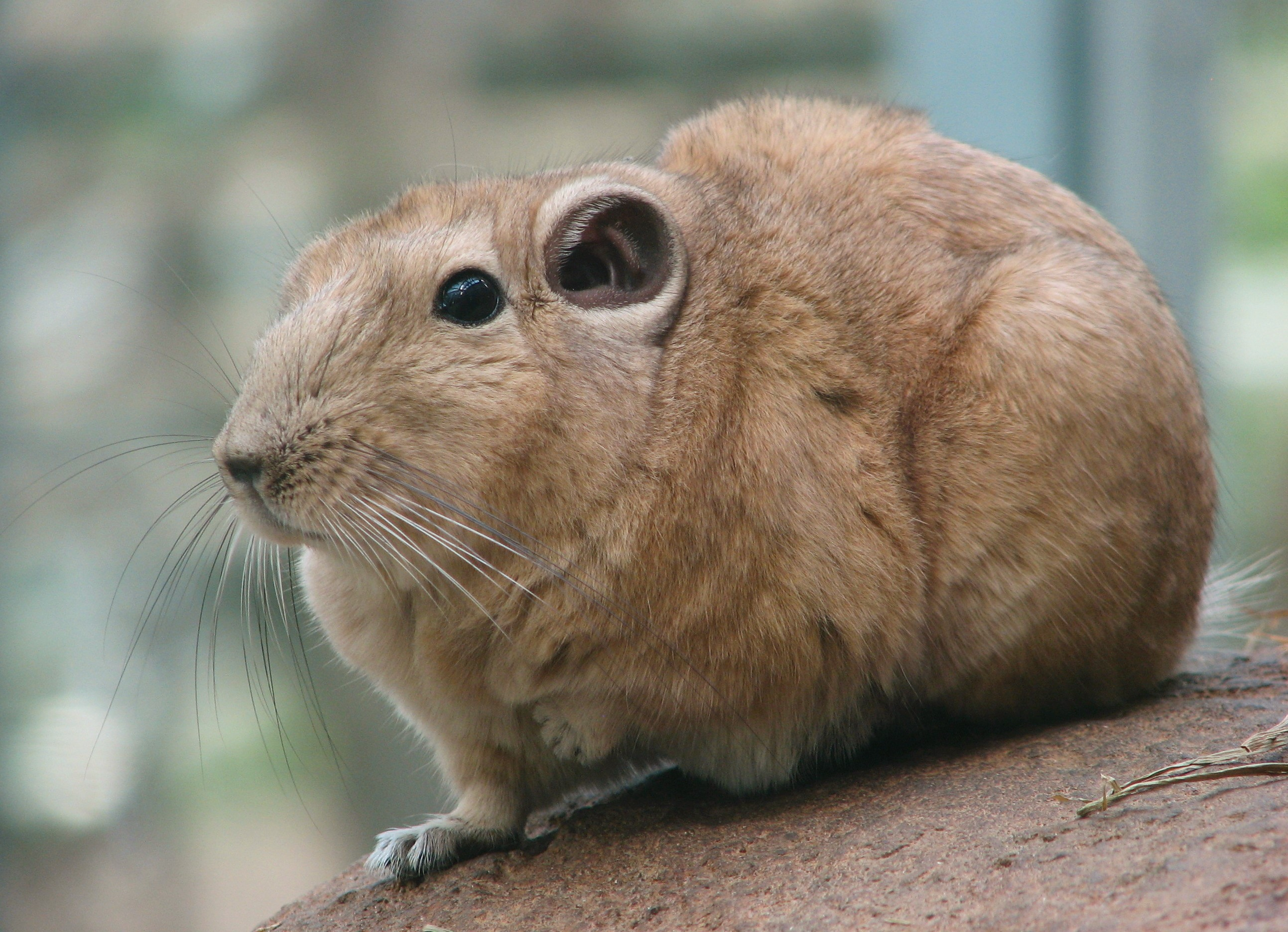 Gundi (Ctenodactylus gundi) at Helsinki Zoo.